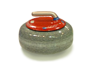 A curling stone.